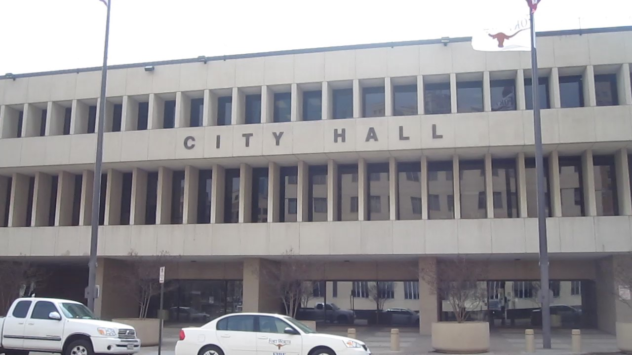 Fort Worth City Hall